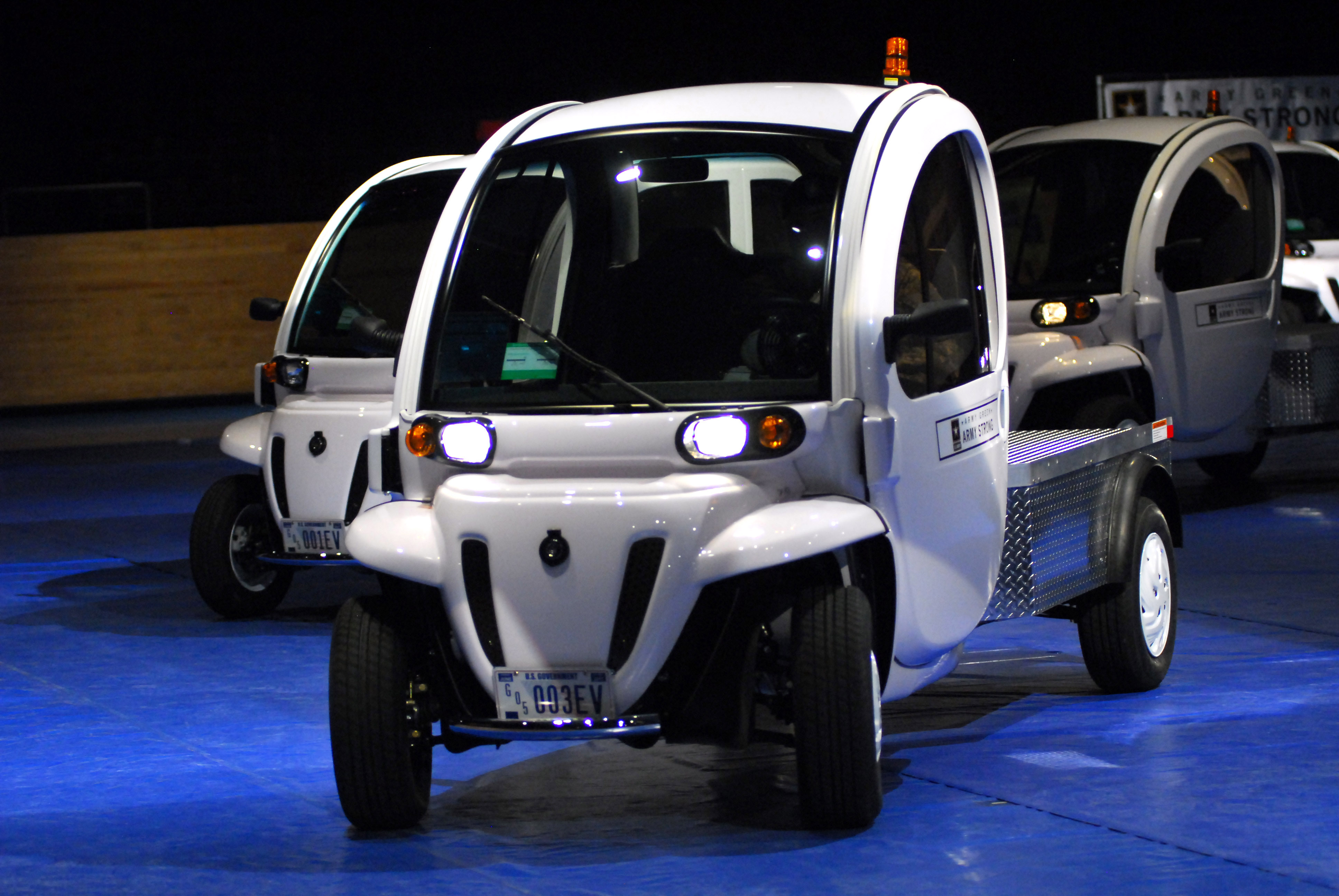 The first six 'neighborhood electric vehicles' were delivered to the Army Jan. 12 during a ceremony at Fort Myer, Va. The ceremonial delivery of the NEVs, which are entirely electric powered, represents the beginning of a leasing action by the Army to obtain more than 4,000 of the vehicles. The use of NEVs by the Army is part of its comprehensive and far-reaching energy security initiative to ease its dependence on fossil fuels. As part of that initiative, the service will be leveraging electric vehicles and other technologies that exist today, as well as exploring emerging technologies. Army receives first of six NEVs